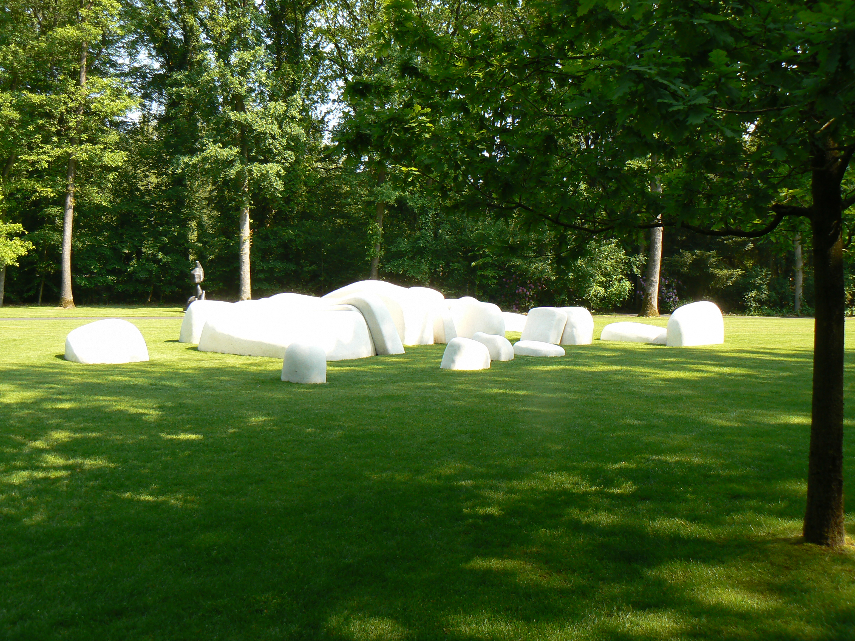 sculpture Rocky lumps (2005/6) by Tom Claassen in KMM Sculpturepark/The Netherlands